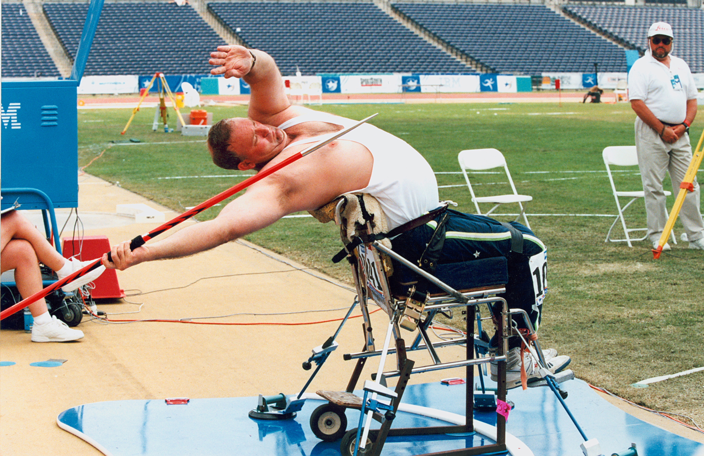 Australian athlete Bruce Wallrodt (Western Australia) prepares to throw in the F53 seated javelin event in which he won the bronze medal at the 1996 Atlanta Paralympic Games